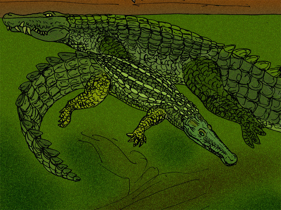 Comparison of the Miocene mekosuchines Baru darrowi (back surfacing), and Harpacochampsa camfieldensis (front)